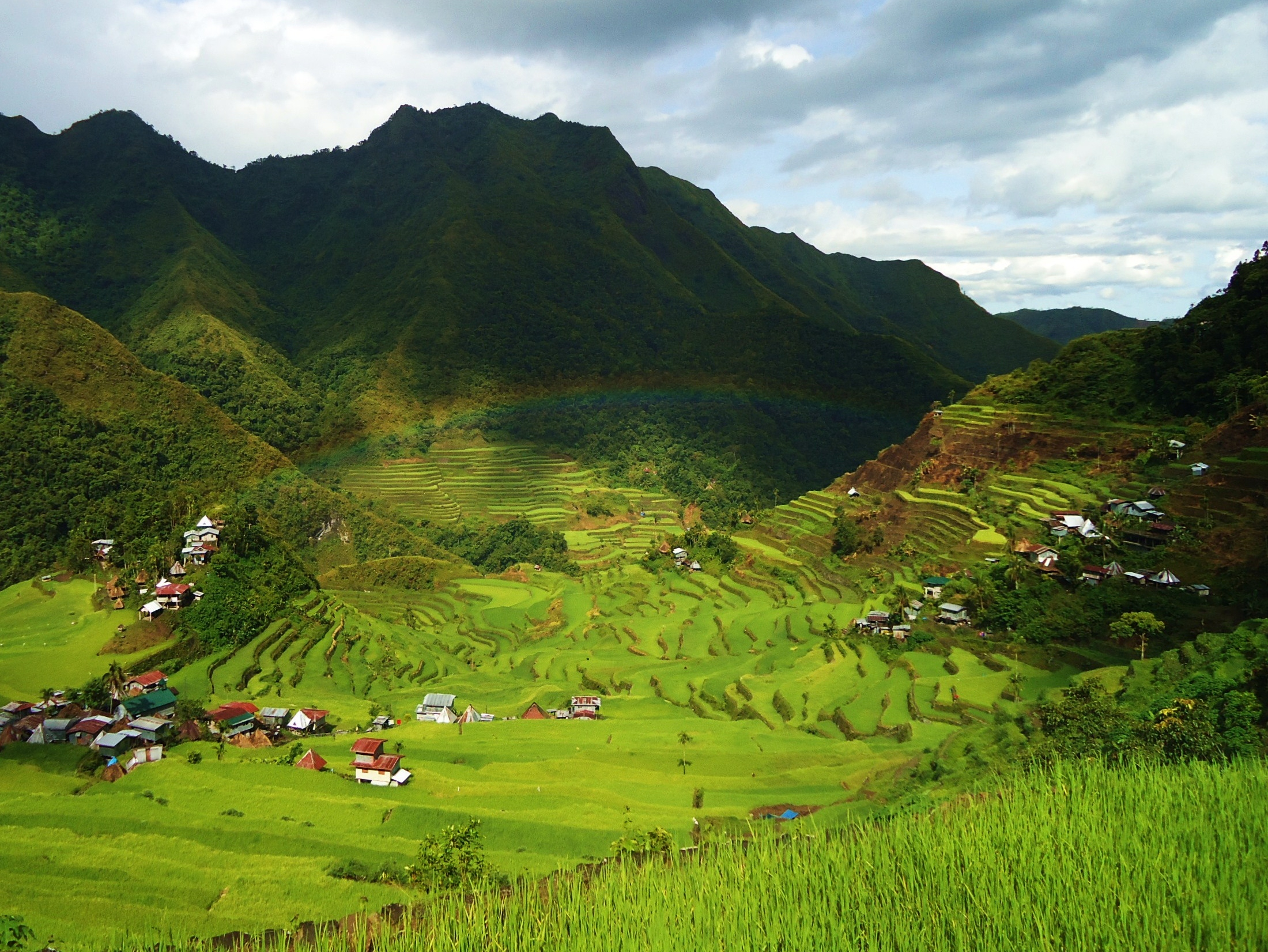 Built over 2,000 years ago, the Rice Terraces of Batad is one of the five clusters of rice terraces in Ifugao province that has been declared a UNESCO World Heritage Site. Filipino: Ginawa may 2,000 taon na ang nakararaan, ang Payo ng Batad ay isa sa limang kumpol ng mga payo sa lalawigan ng Ifugao na ipinahayag bilang isang Pandaigdigang Pamanang Pook ng UNESCO. Ilokano: Naaramid 2,000 a tawen iti napalabas, iti Payew ti Batad ket maysa kadagiti lima nga pay-payew iti probinsiya ti Ifugao nga naawagan nga UNESCO World Heritage Site.